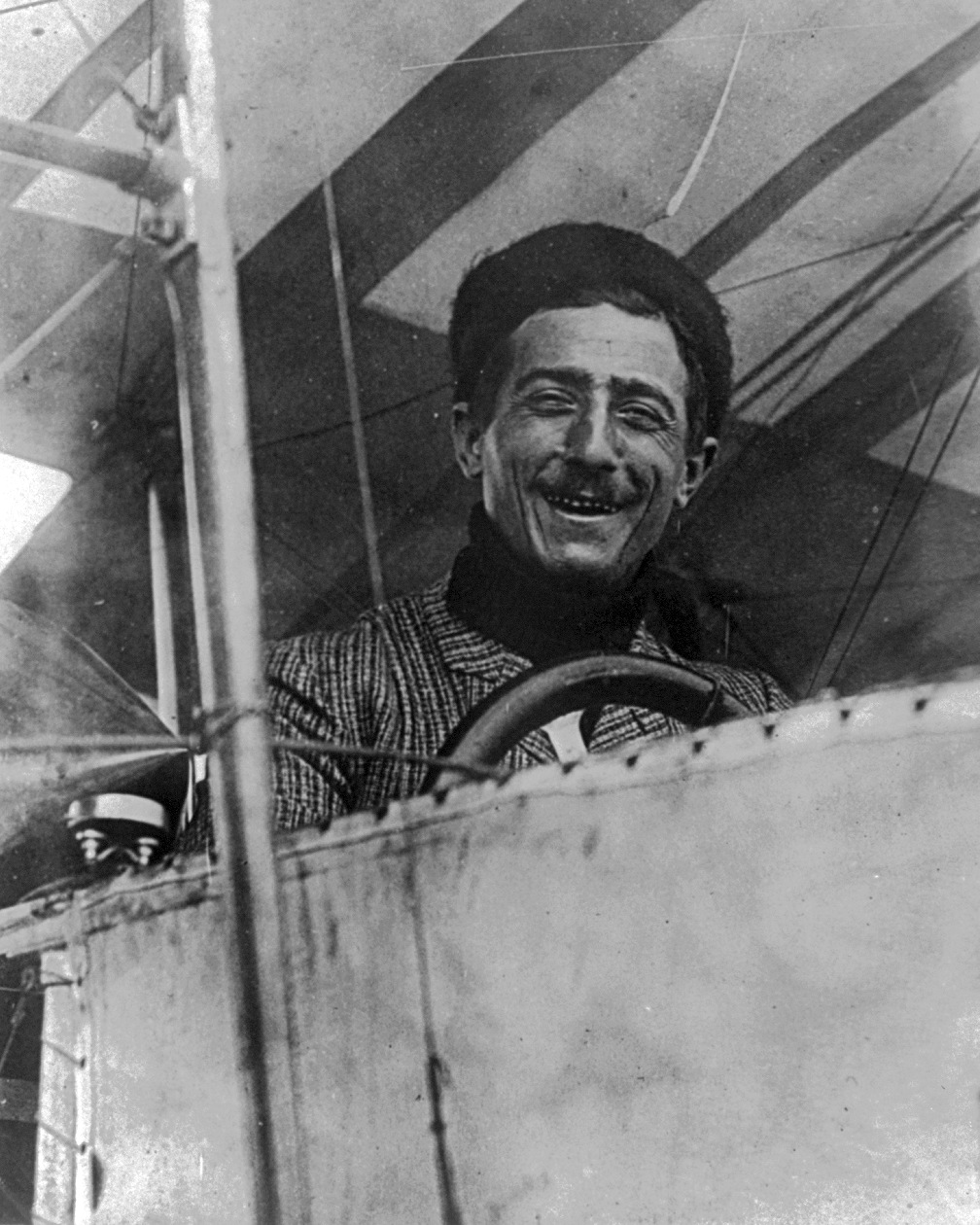 Louis Paulhan (1883-1963), early French aviator 1909 Louis Paulhan won several air races 1910 (London-Manchester and the Dominguez International Air Meet in Los Angeles) TITLE: Paulhan CALL NUMBER: No call number recorded on caption card [item] [P&P] REPRODUCTION NUMBER: LC-USZ62-16889 (b&w film copy neg.) No known restrictions on publication. MEDIUM: 1 photographic print. CREATED/PUBLISHED: 1909. NOTES: Title and other information transcribed from unverified, old caption card data and item. George Grantham Bain Collection (Library of Congress). REPOSITORY: Library of Congress Prints and Photographs Division Washington, D.C. 20540 USA DIGITAL ID: (b&w film copy neg.) cph 3a19088 CARD #: 2002721539